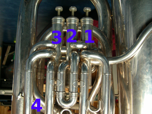 Piston of Eb tuba